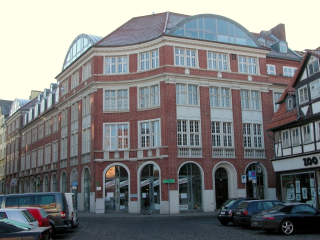 Brunswick, Germany: “Volksfreund”-House of the Social Democratic Party of Germany (SPD). Between 1930 and 1945 the building was used by the SS (picture taken in January 2006).